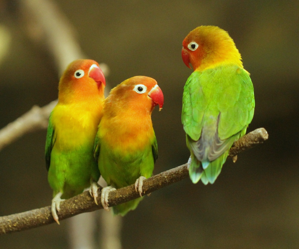 Three Fischer's Lovebirds at Ueno Zoo, Japan.